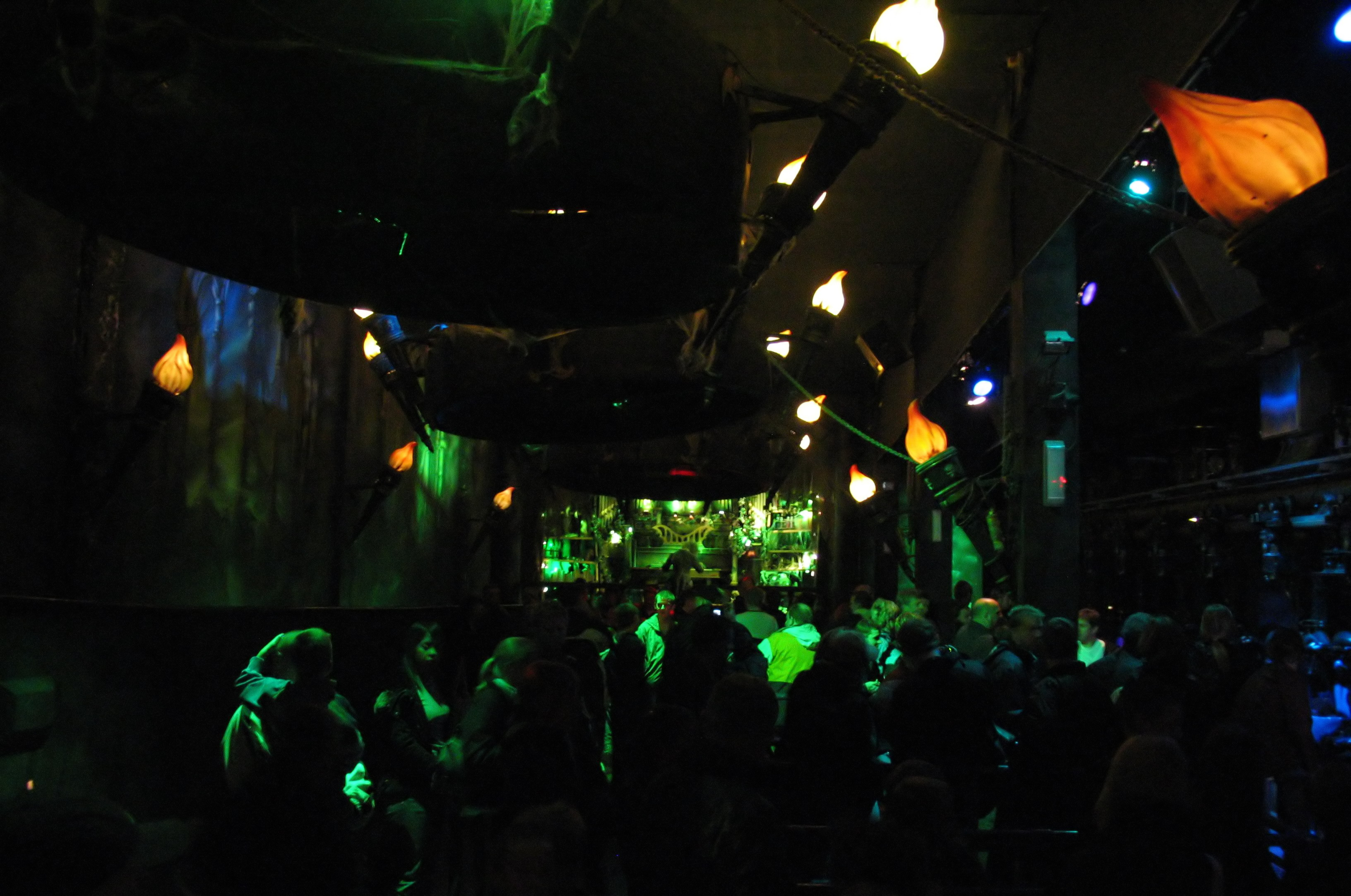 Station of Rollercoaster Vampire at Chessington World of Adventures